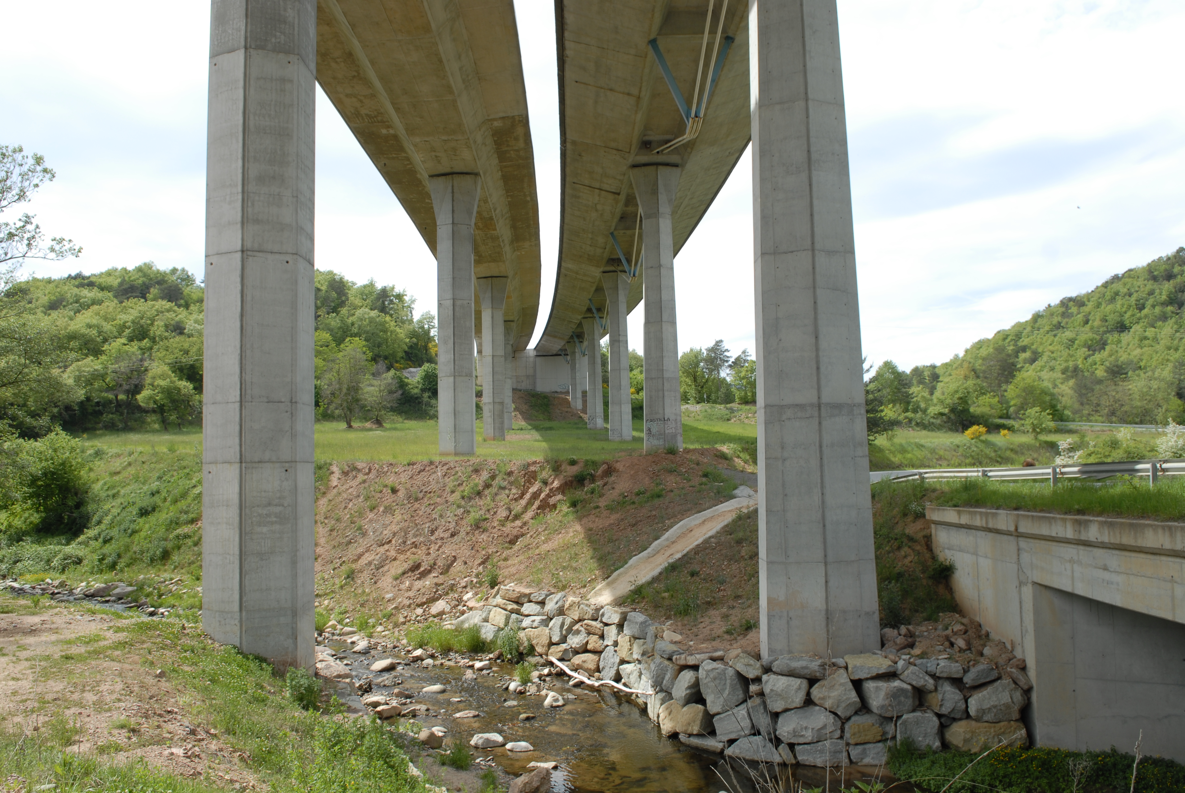 Photo of Osormort Viaduct (in Catalonia).